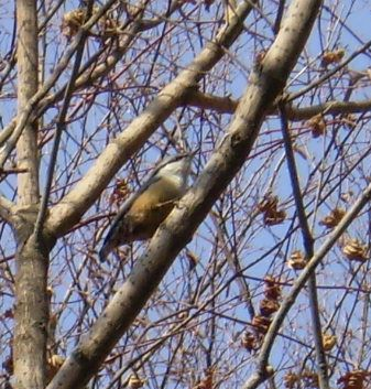 A Eurasian nuthatch, Sitta europaea, at Mungyeong Saejae.